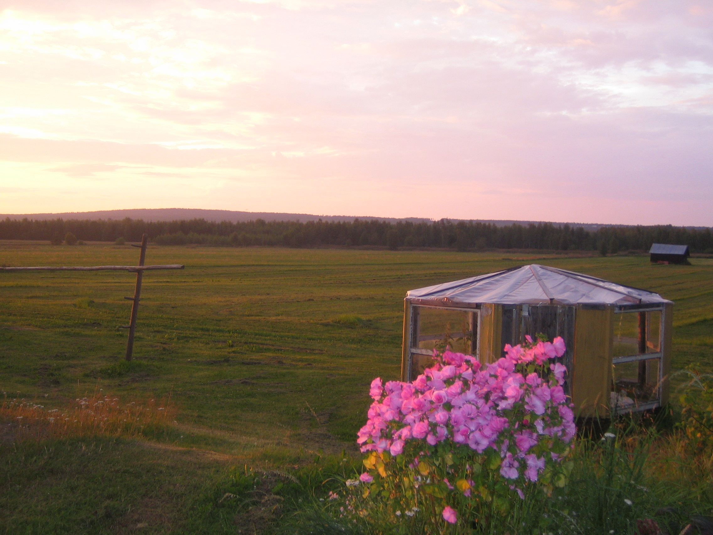 Open fields at Ersnäs, Luleå Municipality, Sweden